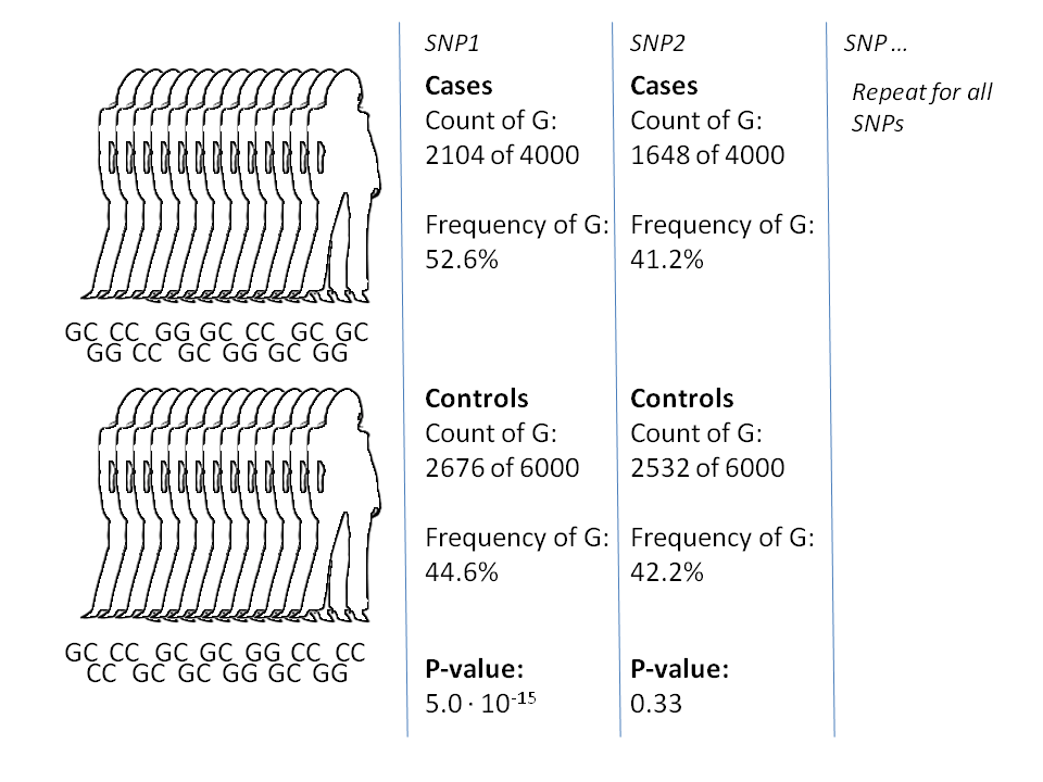 Calculation example illustrating the methodology behind GWA studies. The genotype counts for SNP 1 are taken from the 9p21 SNP as identified in the Wellcome trust study of 2007 (PMID 17554300)